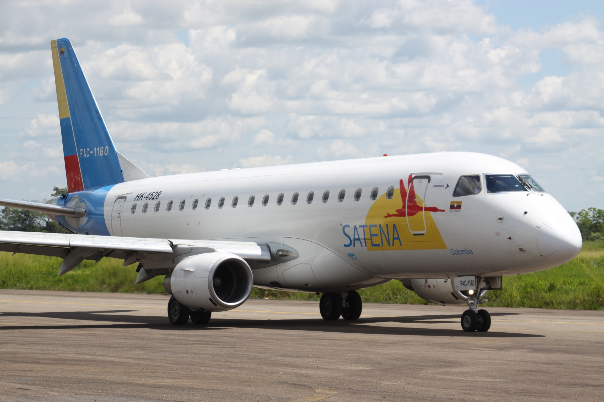 HK-4528 - FAC-1180 Embraer Emb.170 SATENA at Villavicencio La Vanguardia